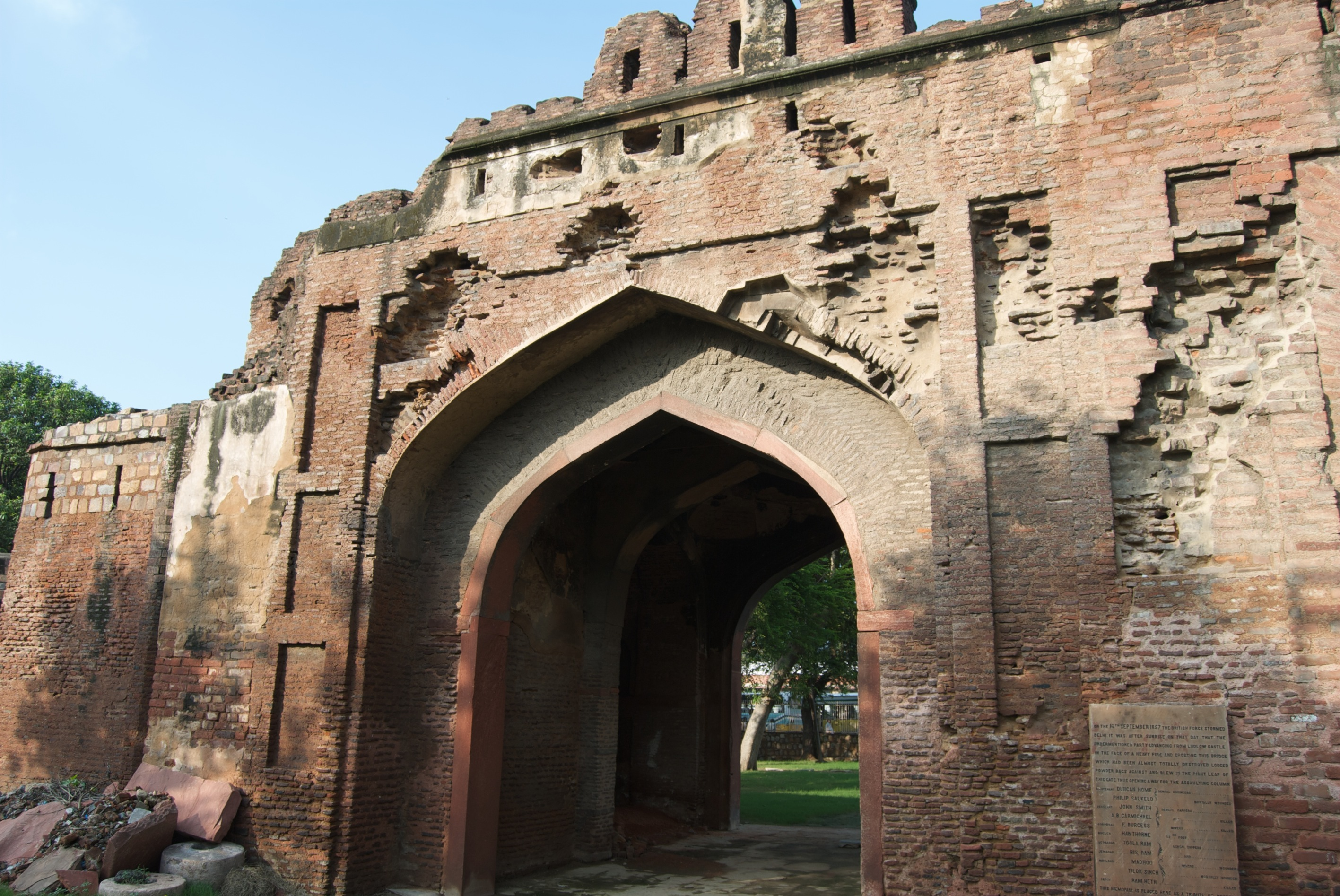 This is one of the seven gates in Delhi. Its called the Kashmiri Gate.